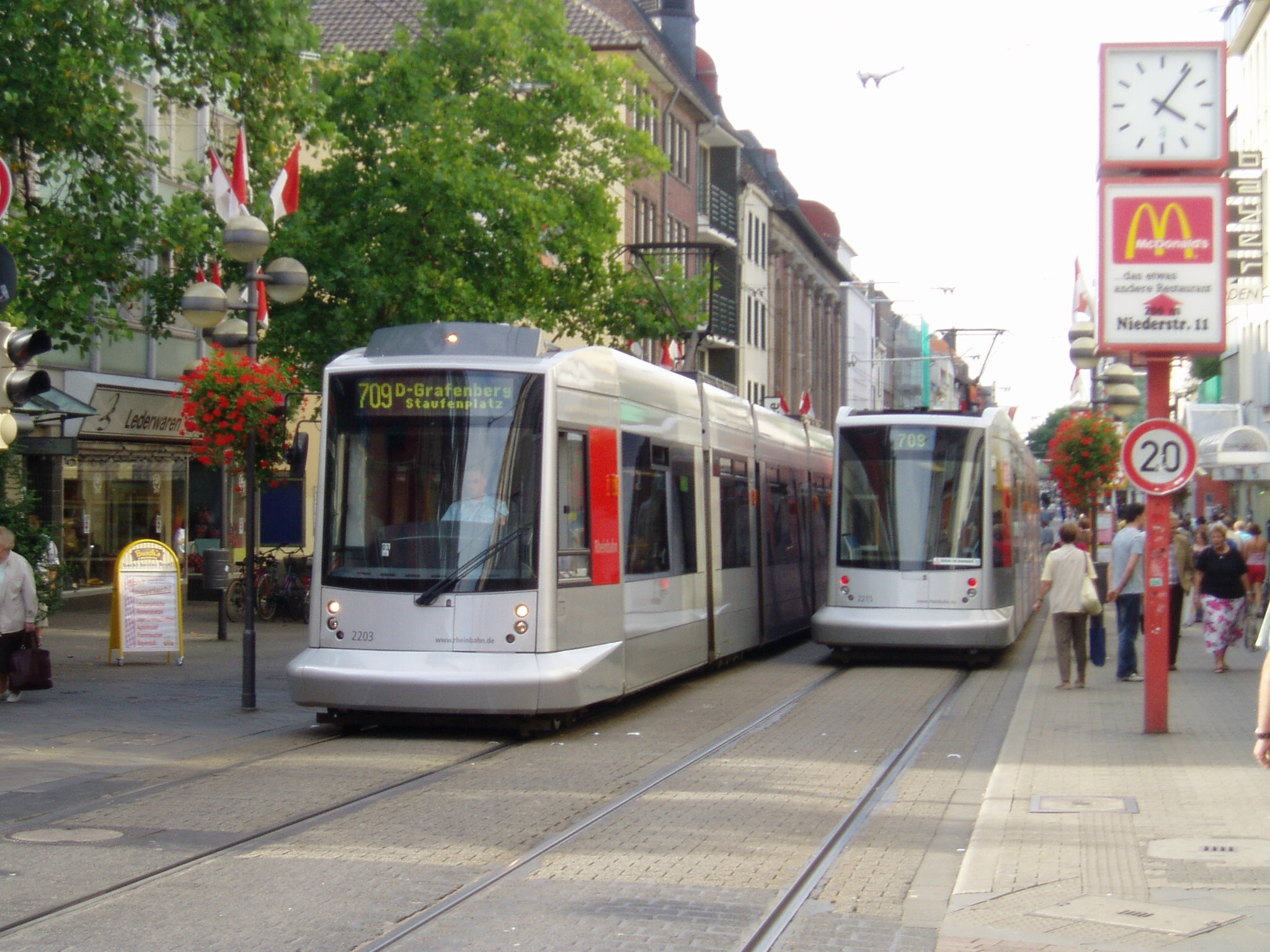 Rheinbahn trams in downtown Neuss.